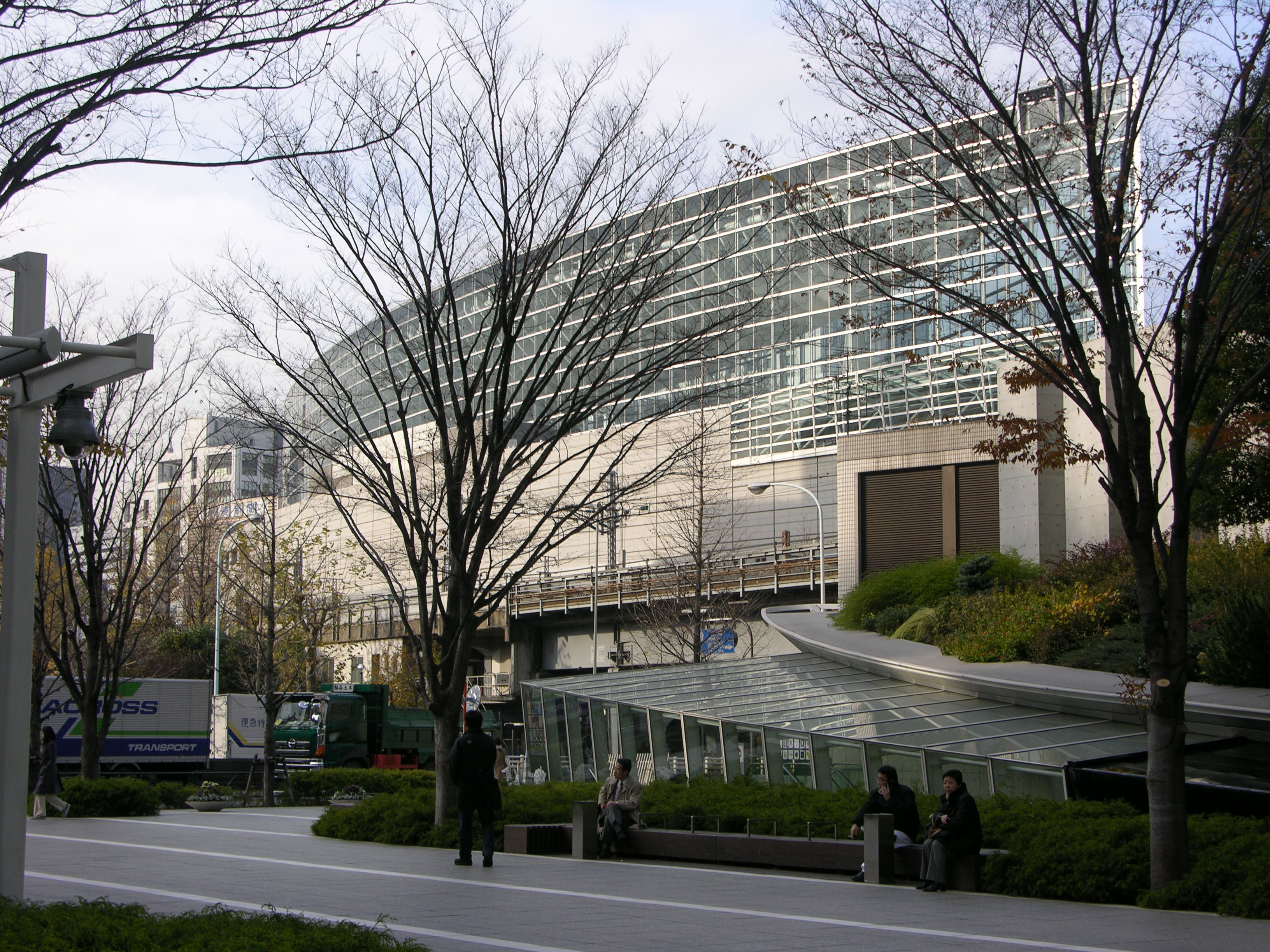 Tokyo International Forum. Japan. Author: Zaida Montañana, December 2005. Nikon coolpix 8 MPixels.